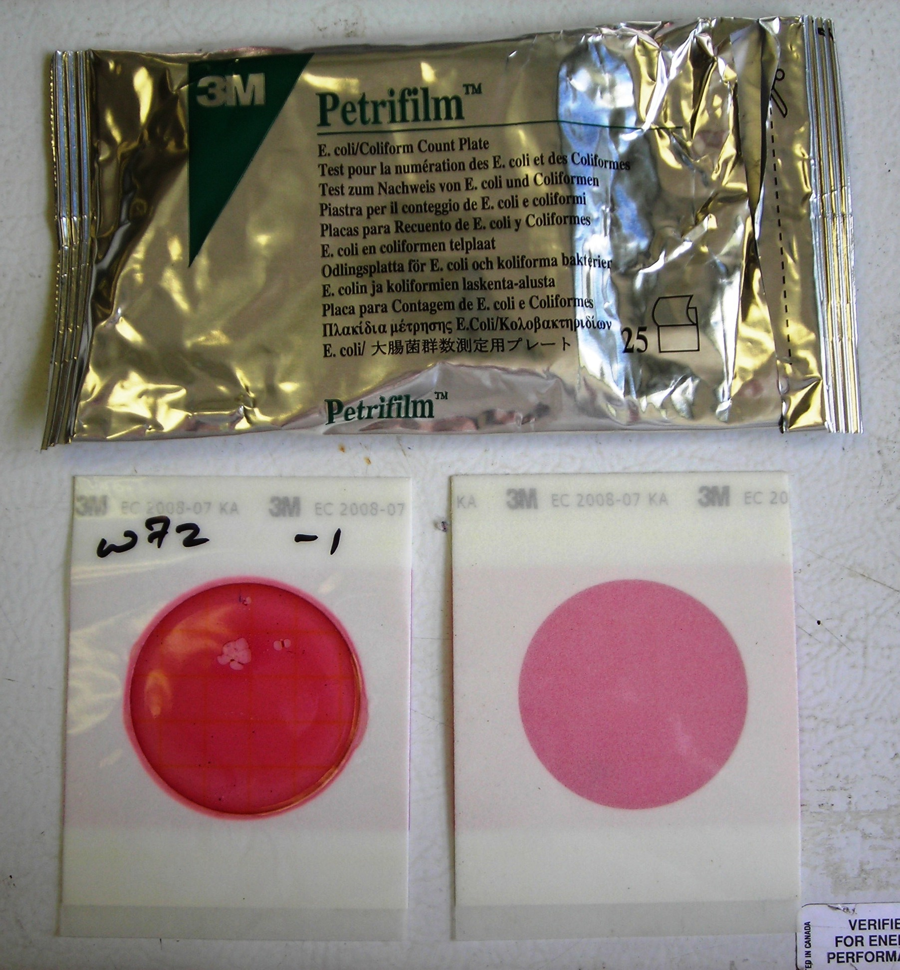 3M Petrifilm E. coli/coliform plates. The plate on the left has been inoculated and incubated, whereas the plate on the right has been unused. Created and uploaded by Achiu31 18:39, 8 April 2007 (UTC)